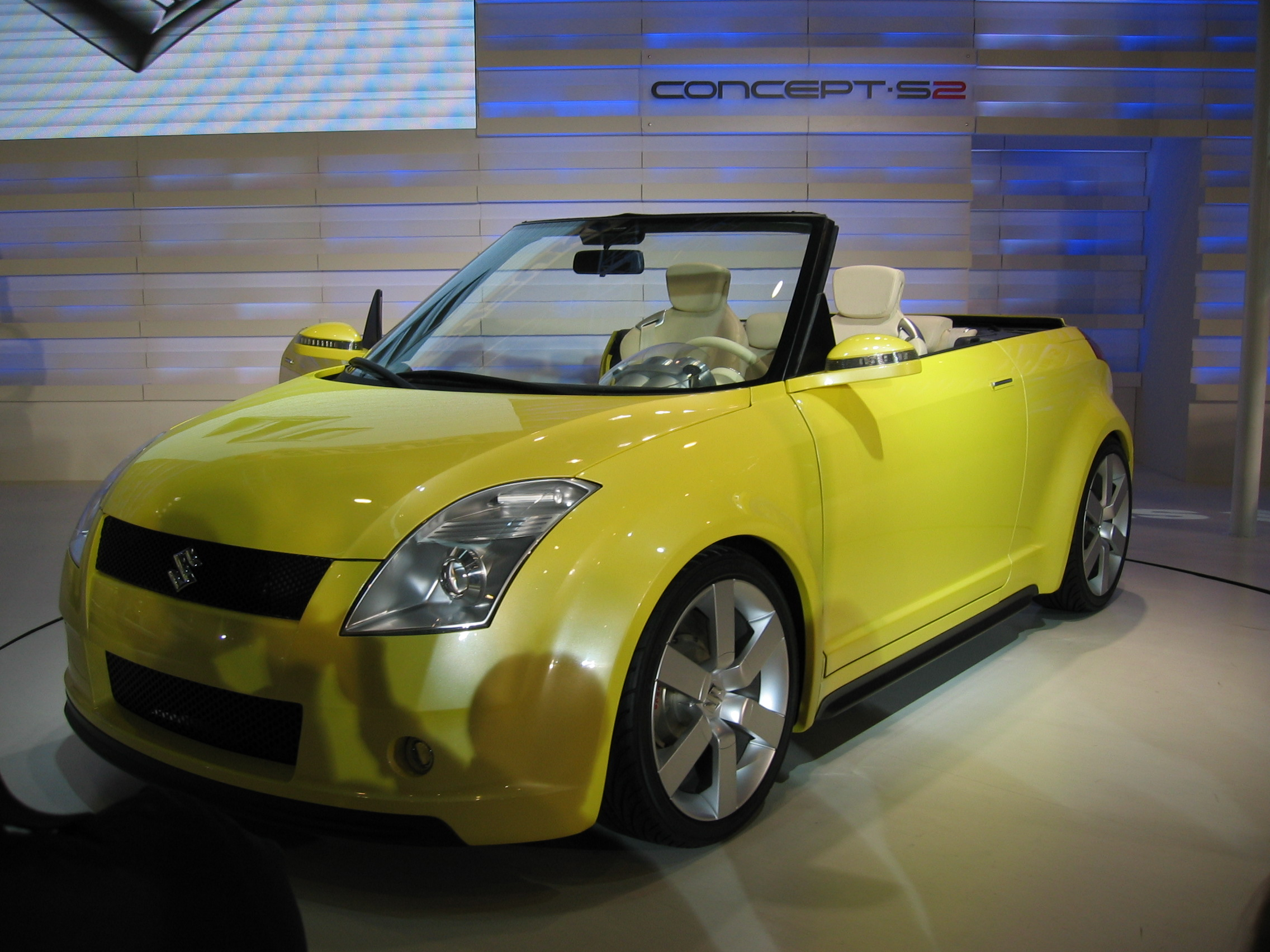 Suzuki's Concept Car "CONCEPT ・ S2 " Taken in Osaka Motor Show 2003